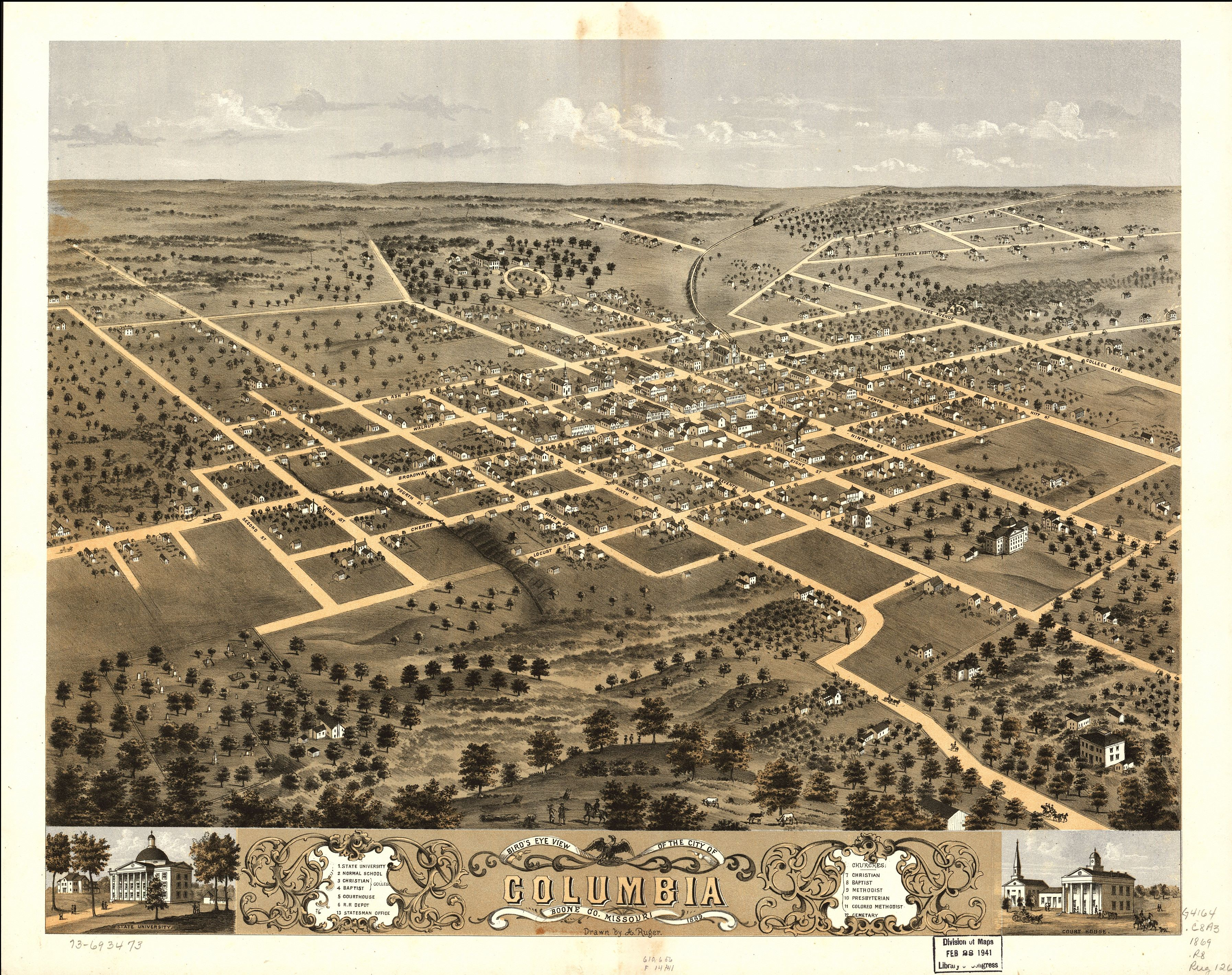 Bird's eye view of the city of Columbia, Boone Co., Missouri 1869. Drawn by A. Ruger.